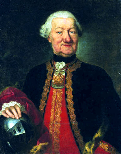 Portrait of Johann Conrad Schlaun (1695-1773), German architect